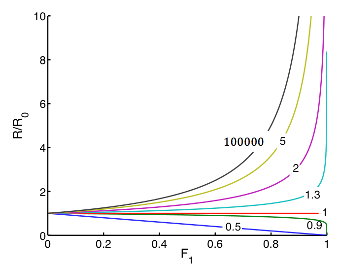 The isotopic enrichment of the relative amount of species 2 with respect to species 1 in the starting material as a function of conversion of species 1. The value of the kinetic isotope effect (k1/k2) is indicated at each curve.